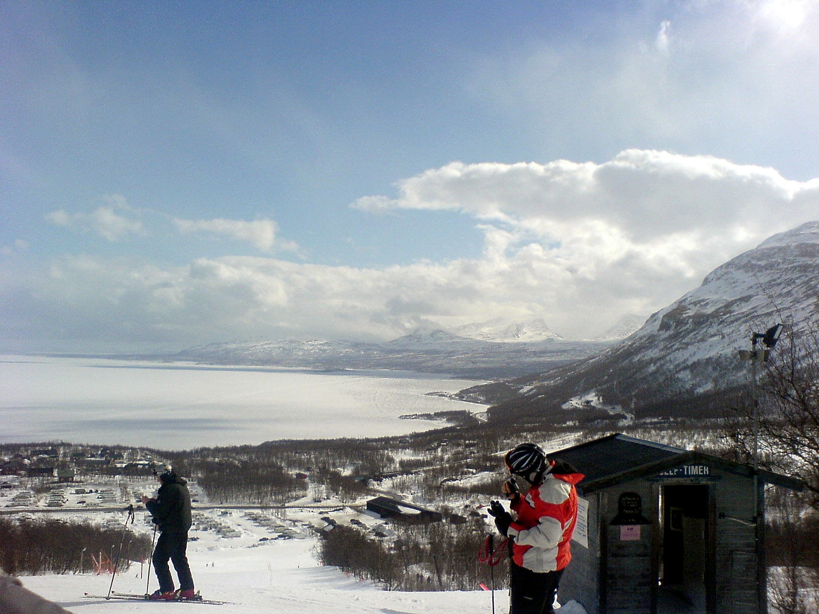 Torneträsk, Kiruna municipality, viewed from Björkliden.